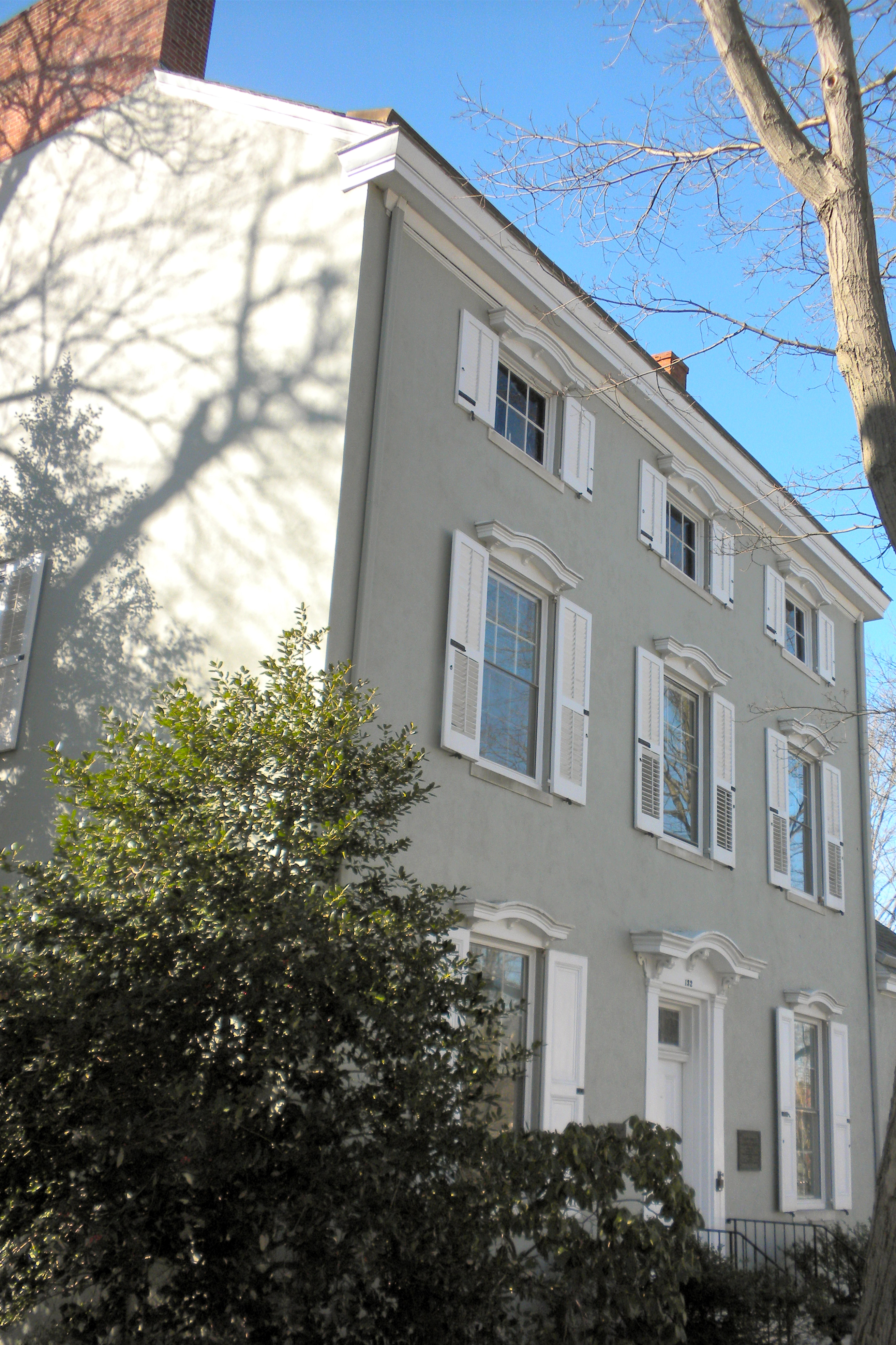 James-Lorah House, on NRHP since October 17, 1972. At 132 N. Main Street across the street from Bucks County Courthouse in Doylestown, Pennsylvania